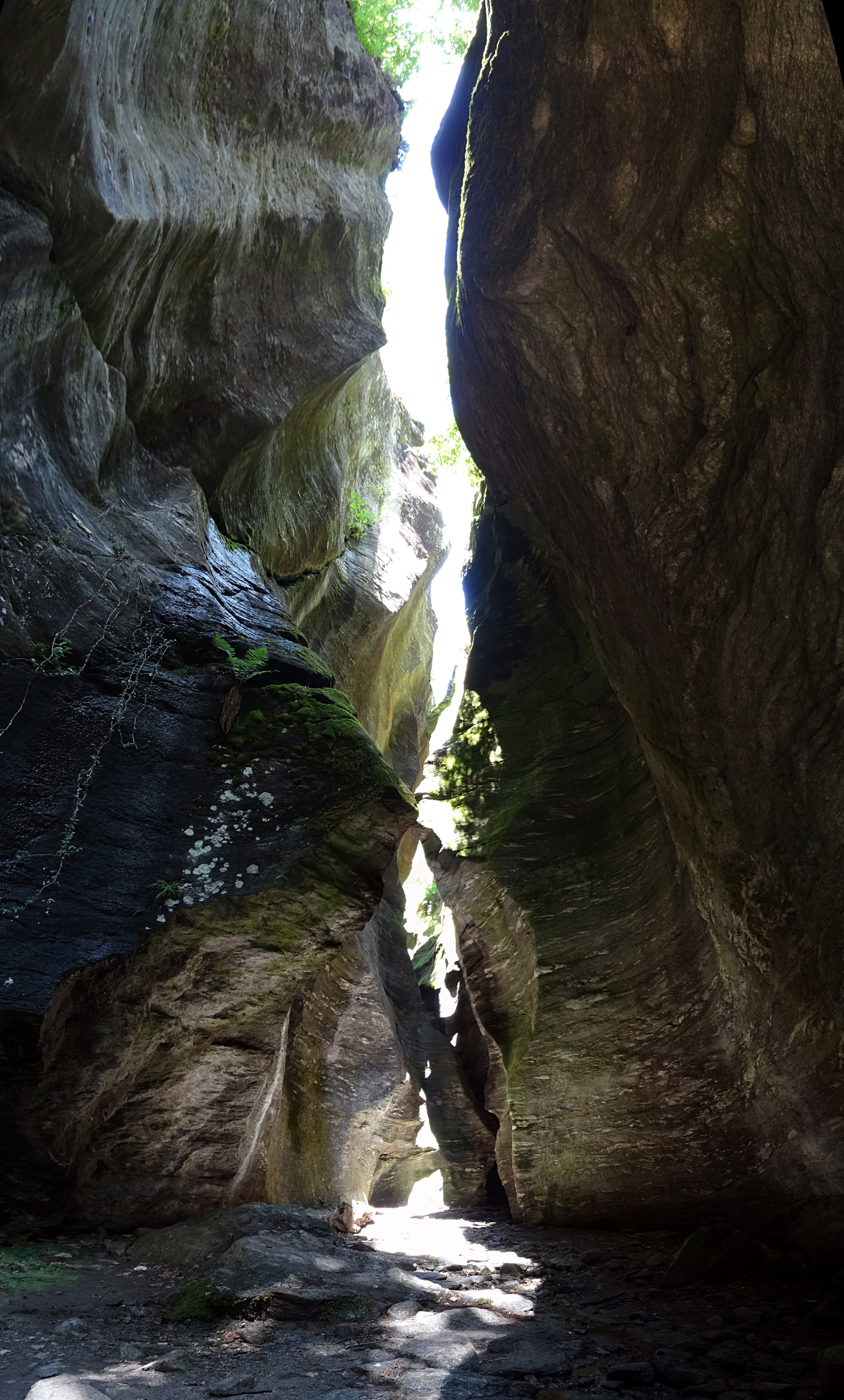 in the south canyon of Uriezzo